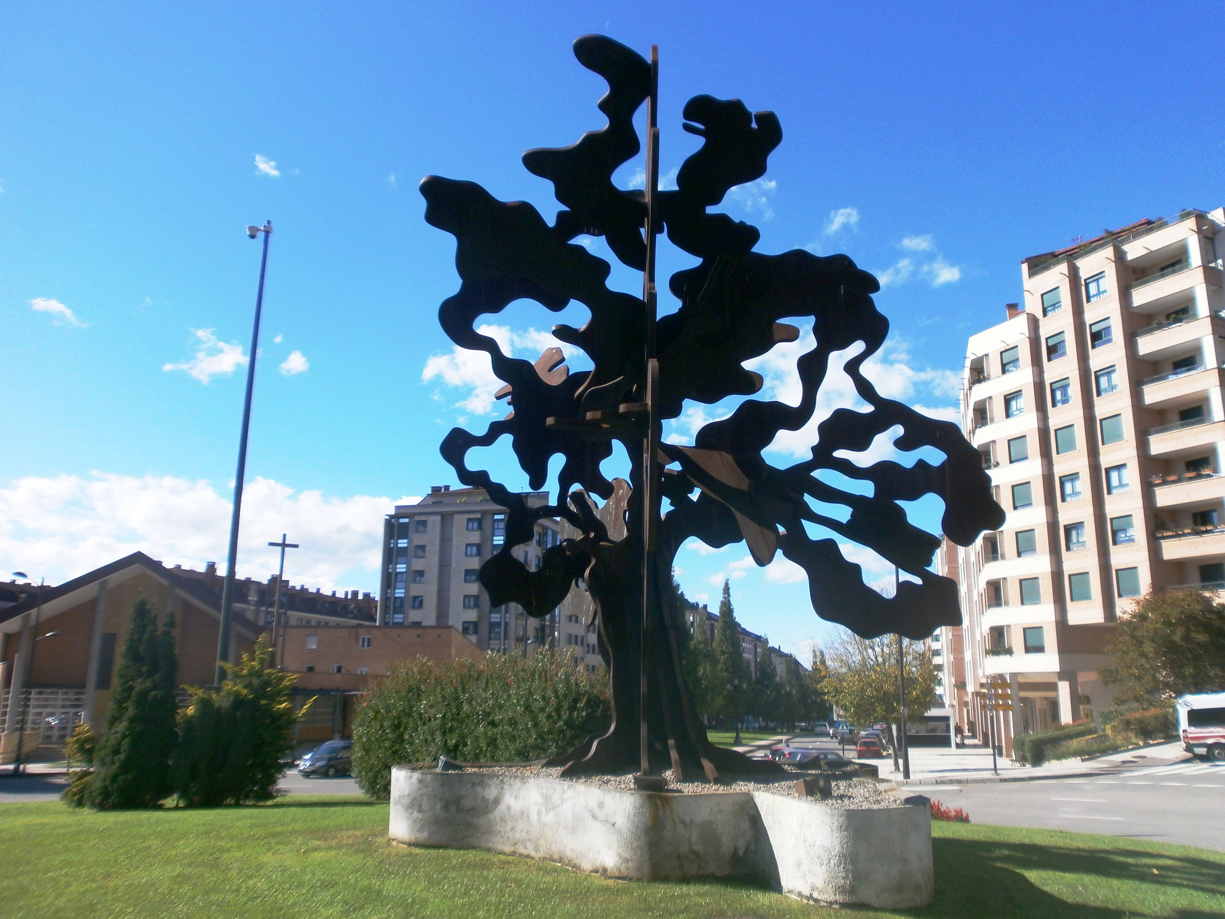 Esculturas en Oviedo al aire libre